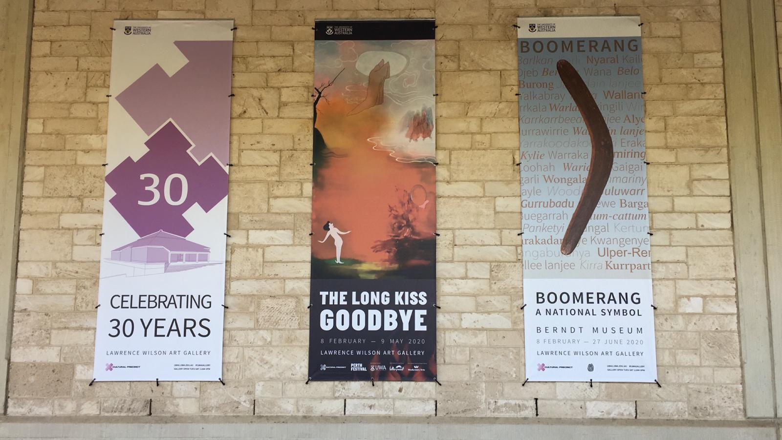 february 2020 banners at entrance of lawrence wilson gallery, university of western australia